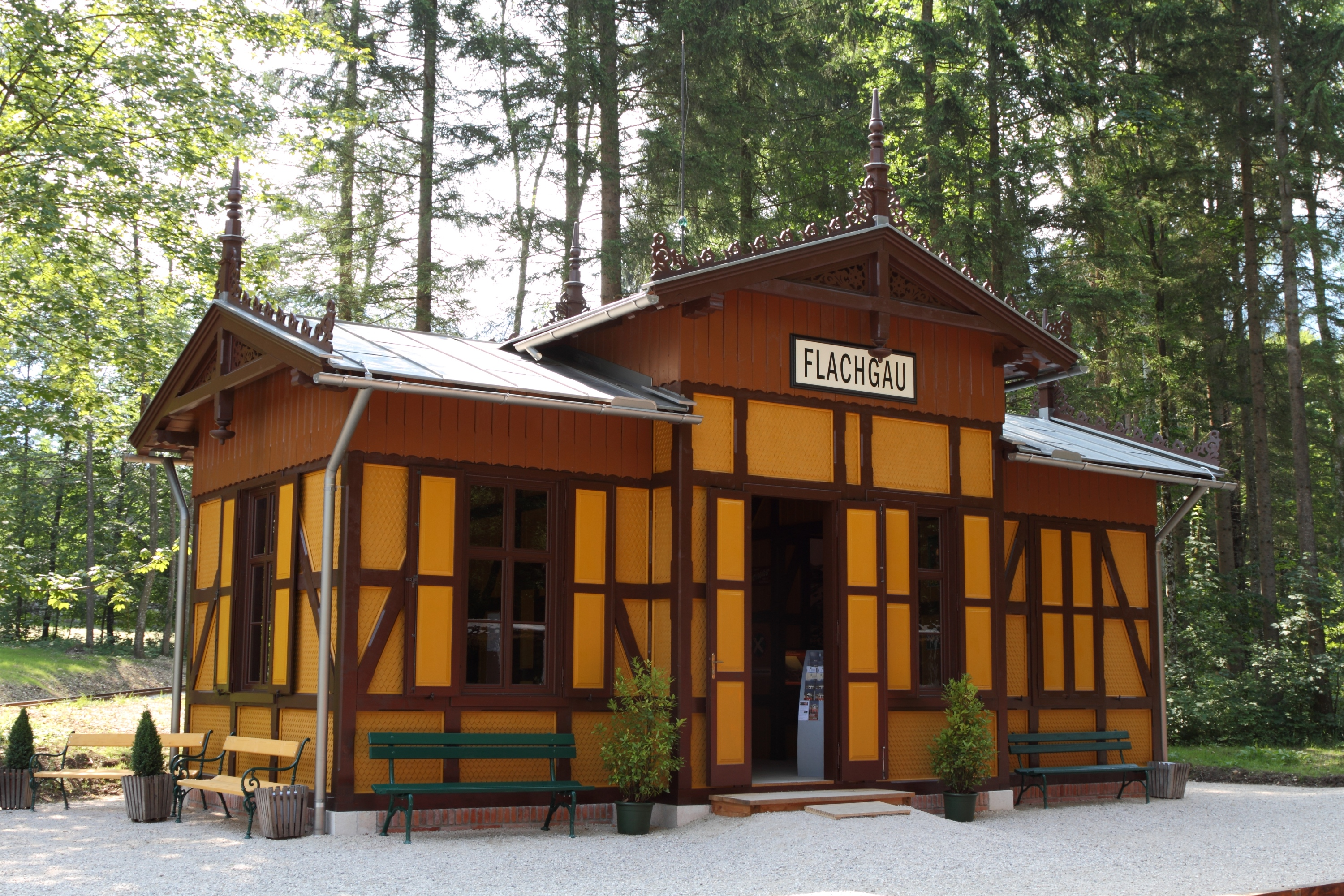 Flachgau station of the Museumsfeldbahn Großgmain. This building is a replica of the Zistelalm station of the Gaisbergbahn cog railway closed in 1928.